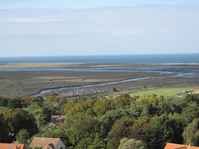 Blakeney Channel viewed from the top of St Nicholas Church The view extends to the salt marshes and beyond to parts of Blakeney Point (in adjoining km. squares).